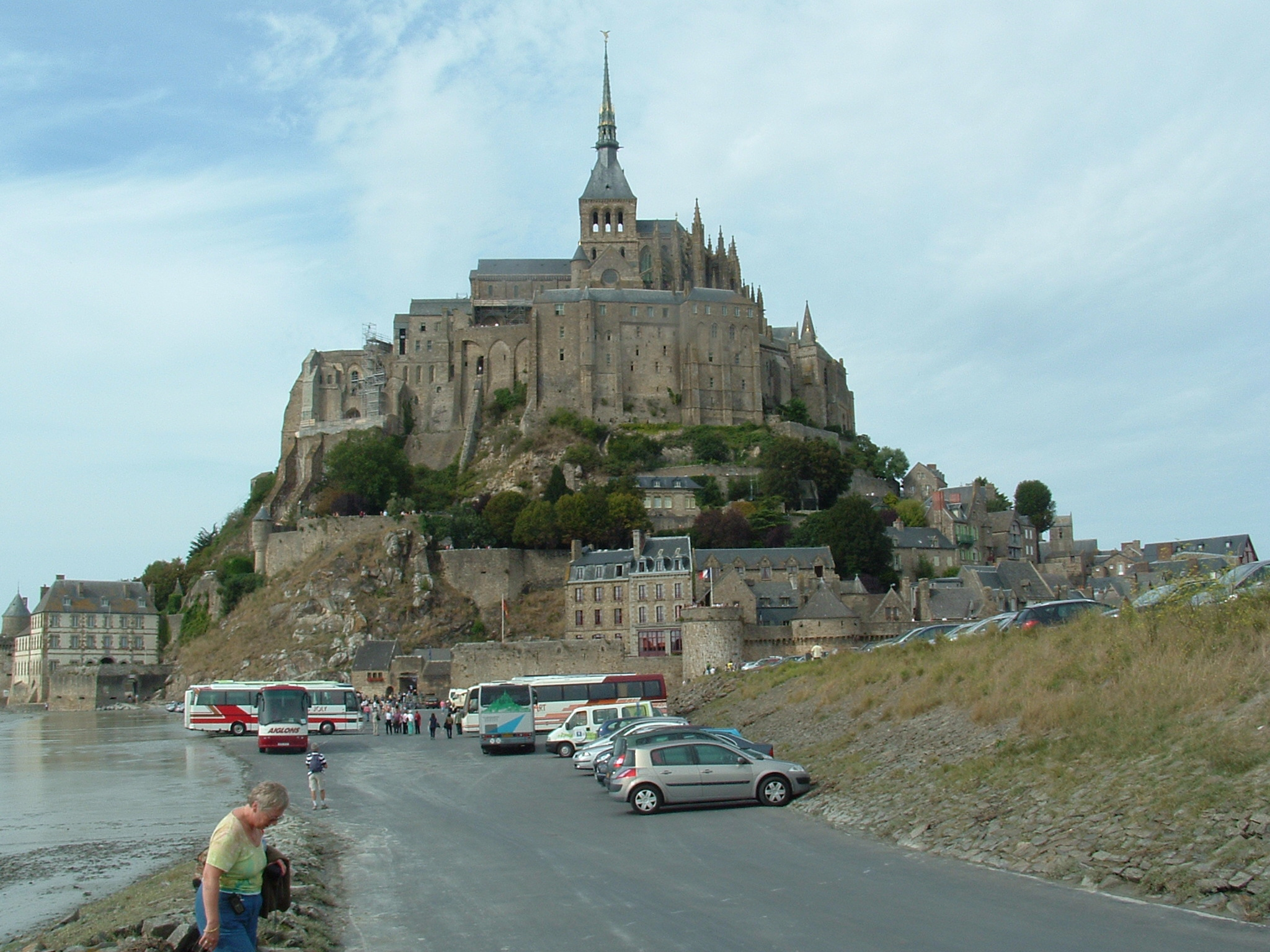 Mont Saint Michel Car Park (France)